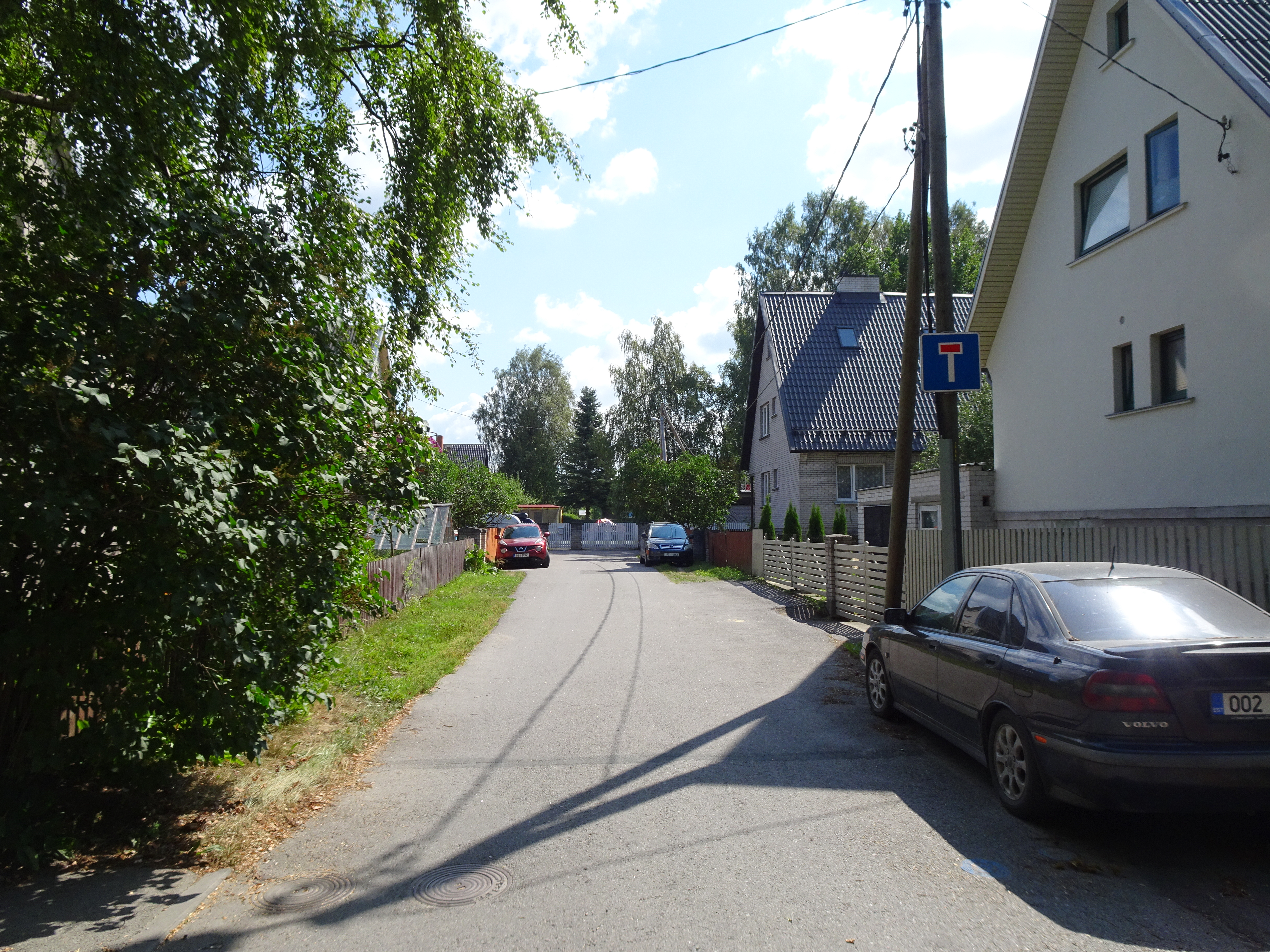 Nõmme Cross Street (Nõmme põik) in Tallinn, Estonia